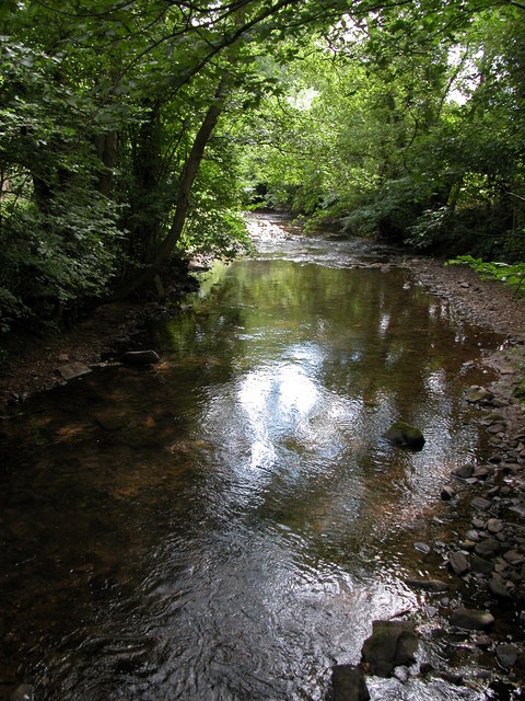 Afon Honddu. Viewed from a footbridge, Afon Honddu drains the Vale of Ewyas. After a period of dry weather the river is low at the time of this photograph.